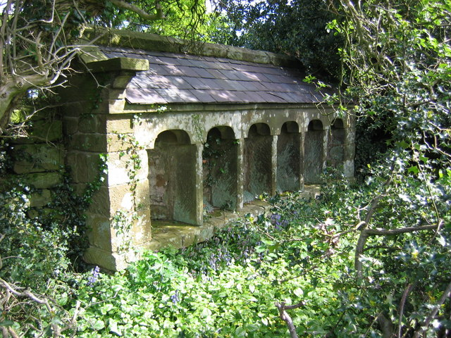 Bee Bole - Dale Head. The Bee Bole was built in 1832 as a shelter for Bee Skeps which were straw built forerunners of the modern beehive.